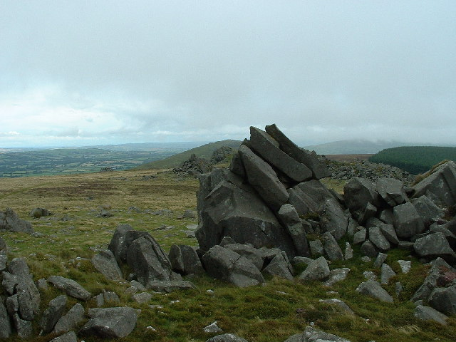 Carn Menyn.